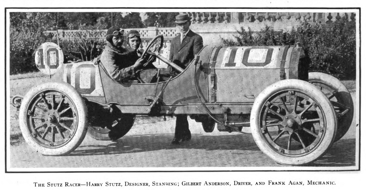 Photo of the Stutz racer — designer, driver and (riding) mechanic, Stutz, Anderson, Agan Memorial Day 1911